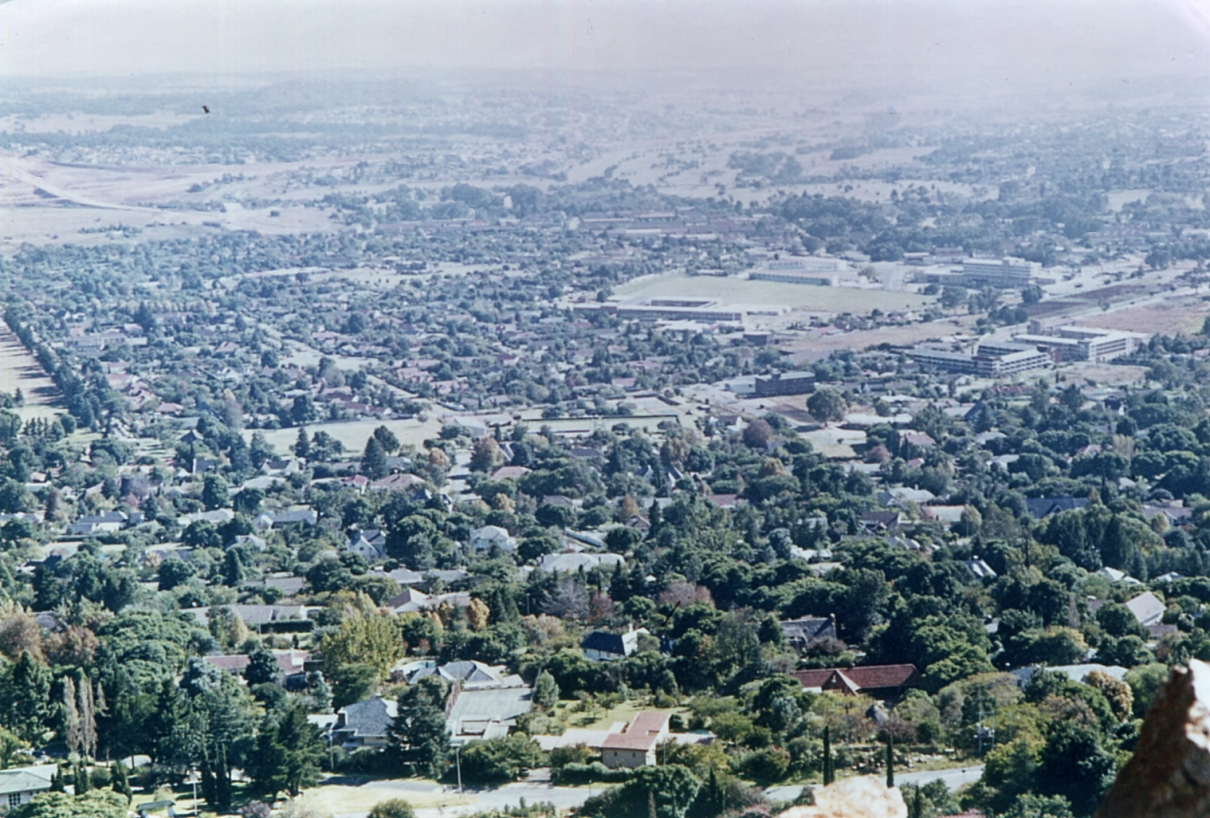 View from Northcliff Ridge, photo processed and printed 13-05-1978, scanned May 2019.